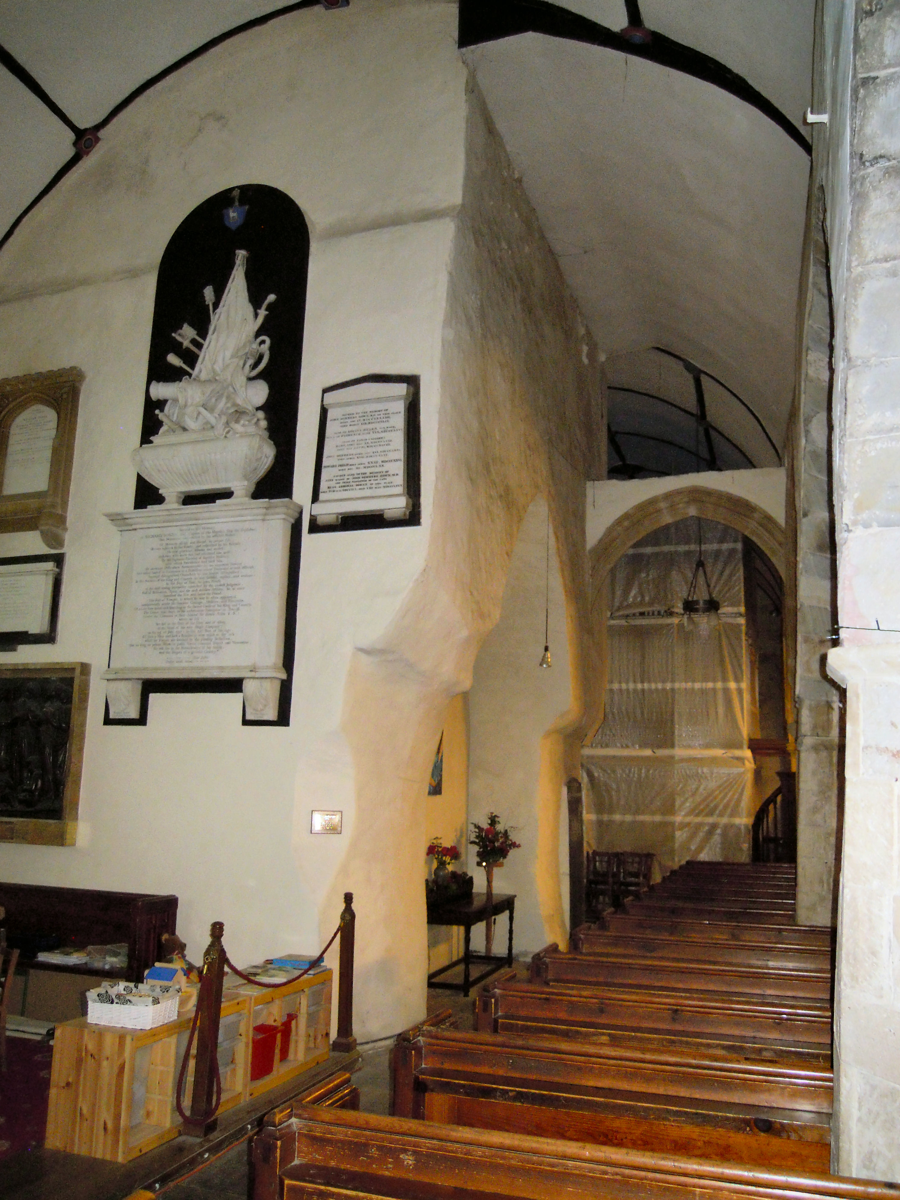 The base of the 14th-century tower in Holy Trinity Church in Ilfracombe in Devon